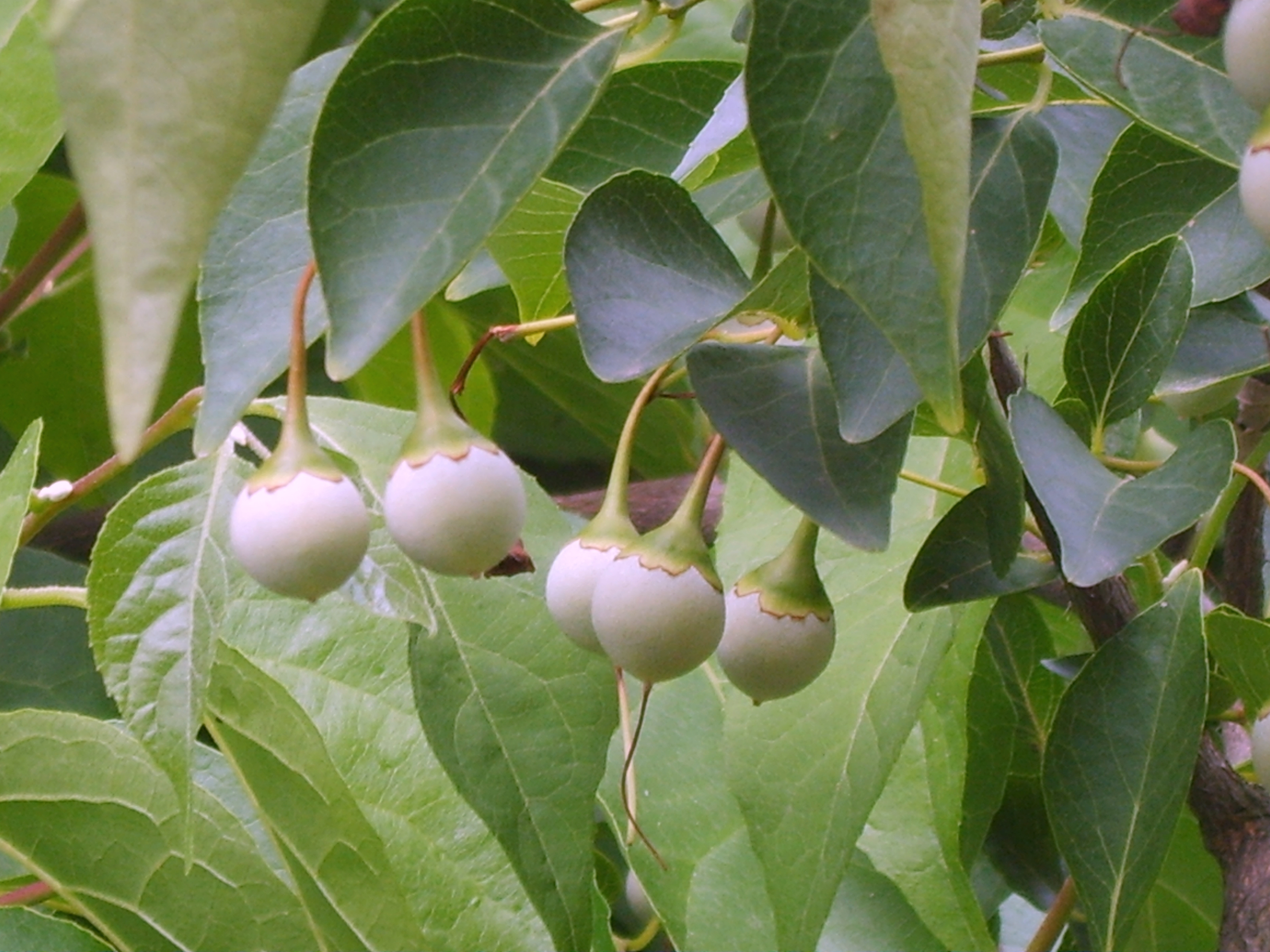 Styrax japonicus